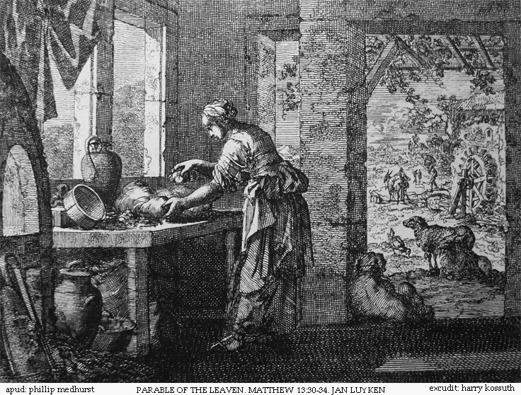 An etching by Jan Luyken illustrating Matthew 13:30-34 in the Bowyer Bible, Bolton, England.